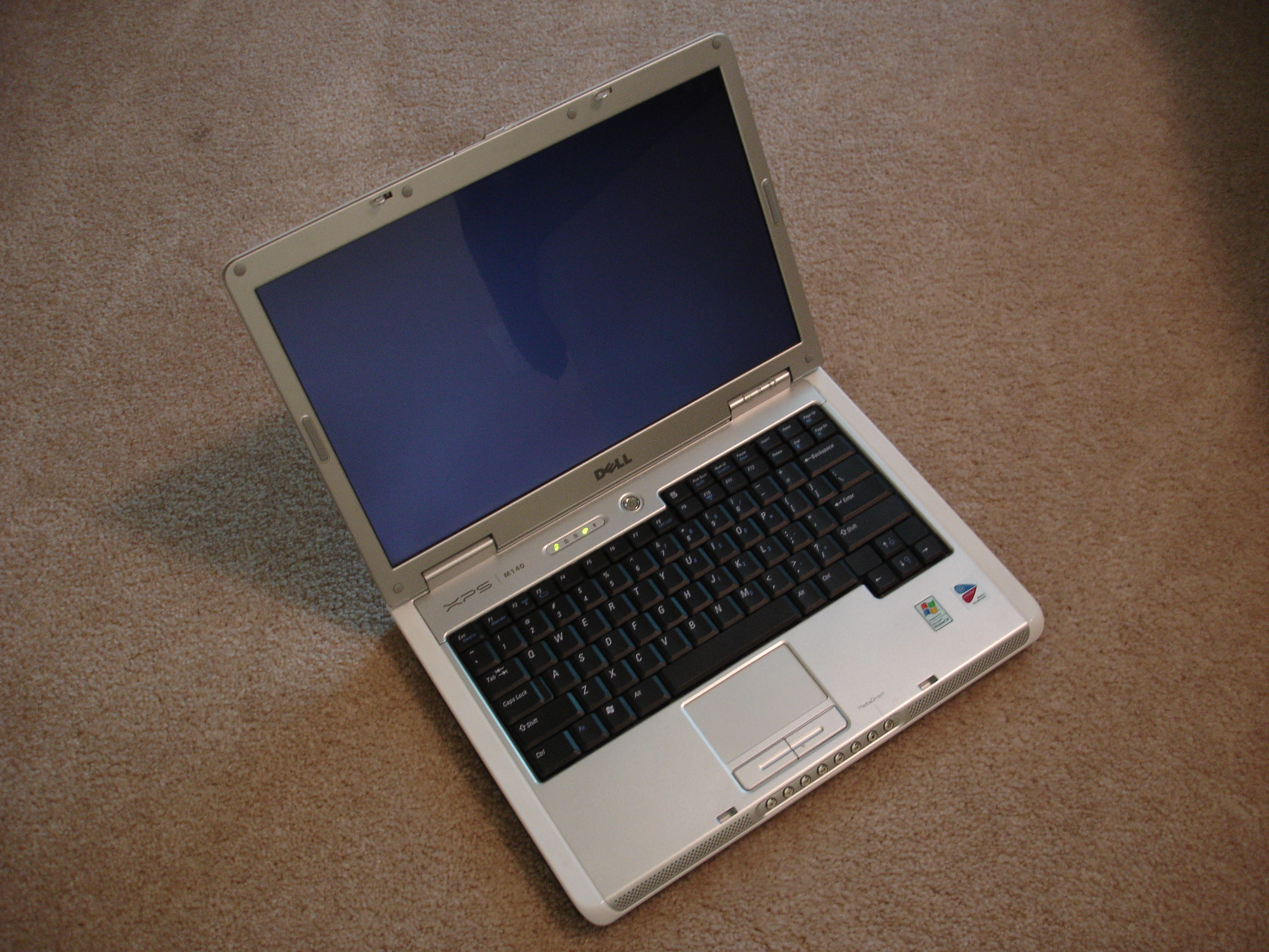 Photo of a Dell XPS M140 Laptop.